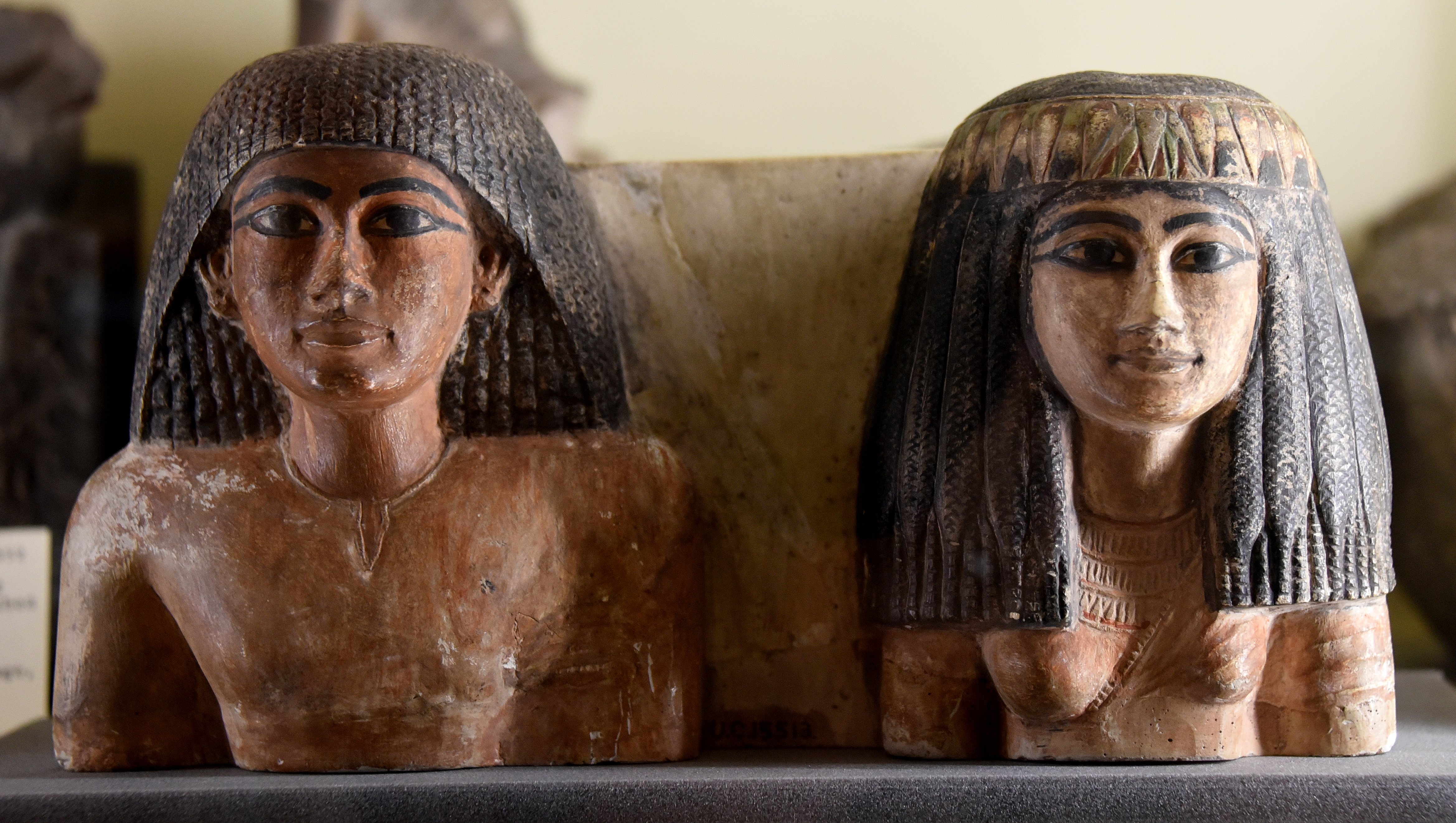 Upper part of a statuette of an Egyptian woman and her husband. There are 7 columns of hieroglyphs on the back, with funerary prayers. The names of the couple were not preserved. 18th Dynasty. From Egypt. From the Amelia Edwards Collection. Now housed in the Petrie Museum of Egyptian Archaeology, London. With thanks to the Petrie Museum of Egyptian Archaeology, UCL.